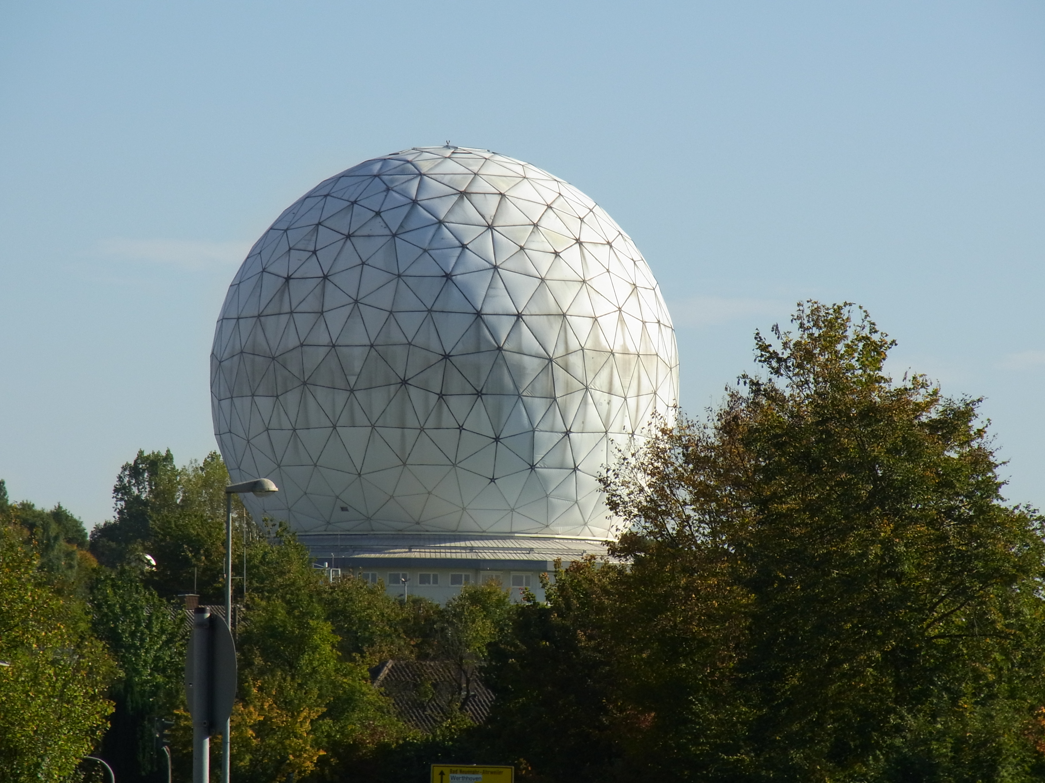 Photography of the Radom in Wachtberg